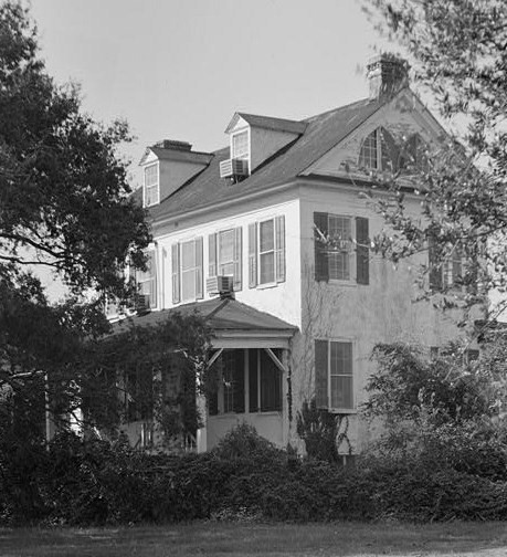 Seaside (House), State Highway 174 vicinity, Edisto Island vicinity (Charleston County, South Carolina) (cropped)